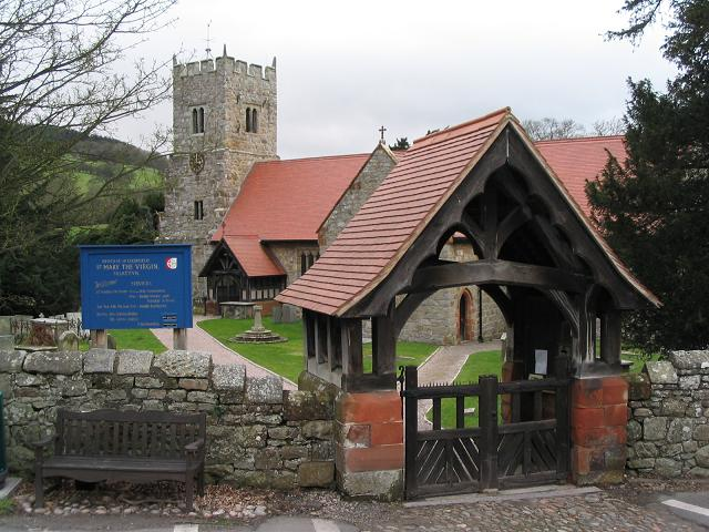 St Mary the Virgin parish church, Selattyn, Shropshire, seen from the southeast